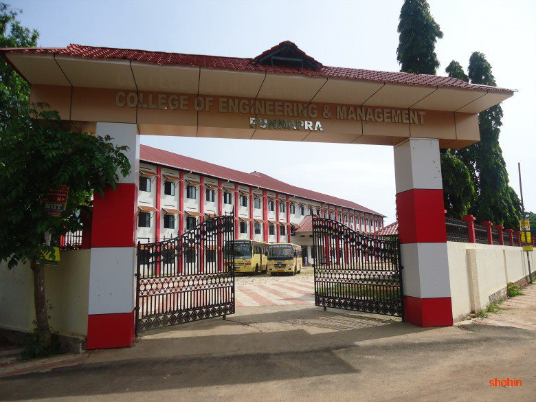 college